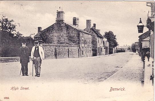 Benwick at beginning 20th century